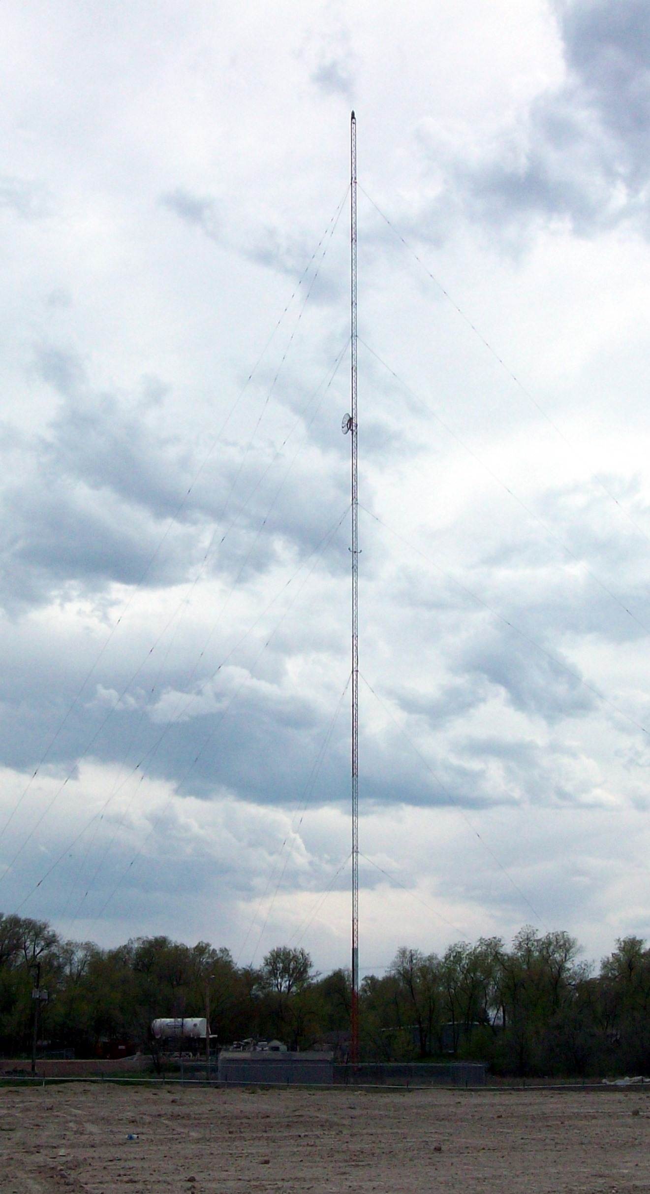 The radio tower for KKAT 860 Salt Lake City and KBJA 1640 AM. Located in West Valley City, Utah.